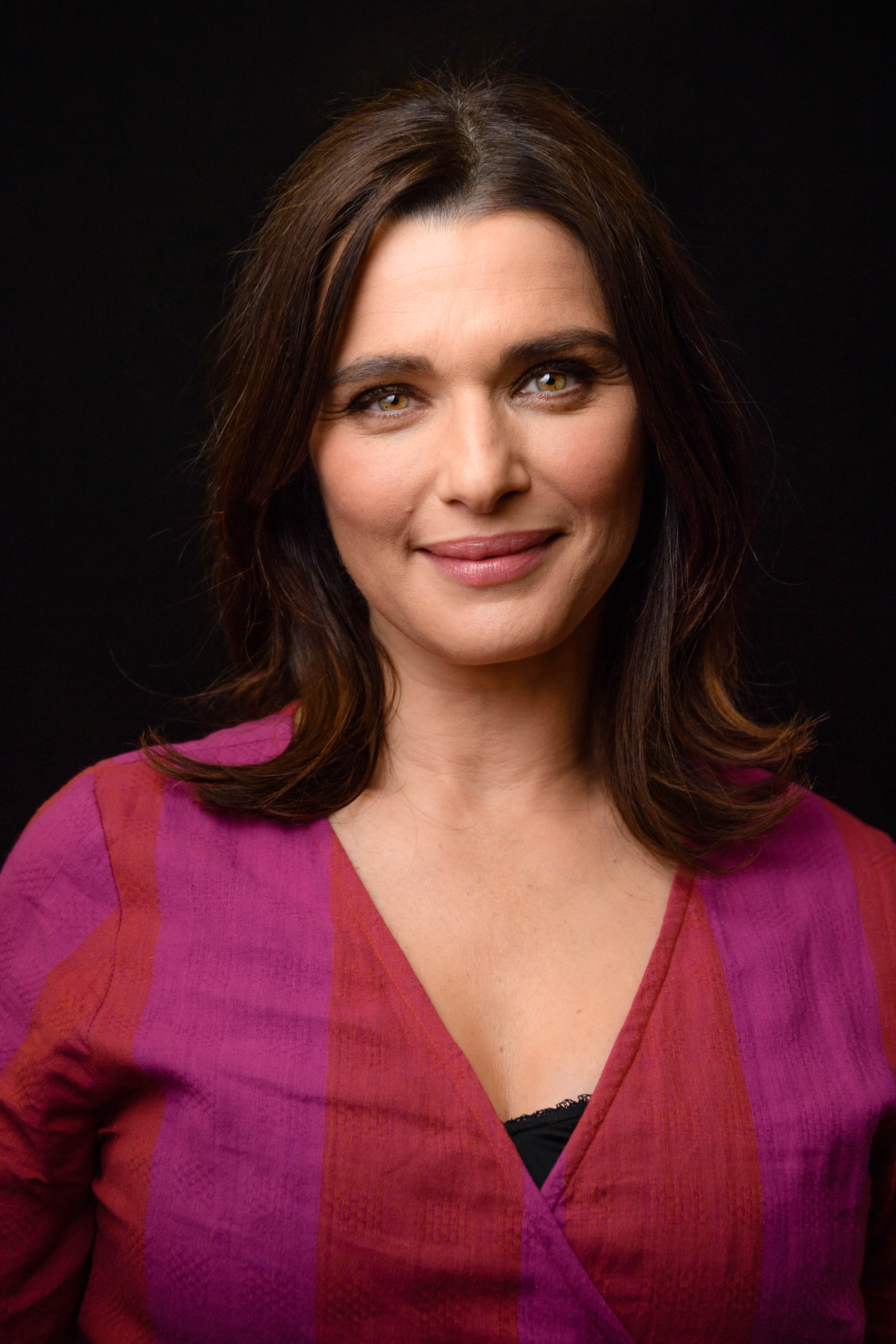 photo by "Neil Grabowsky / Montclair Film"